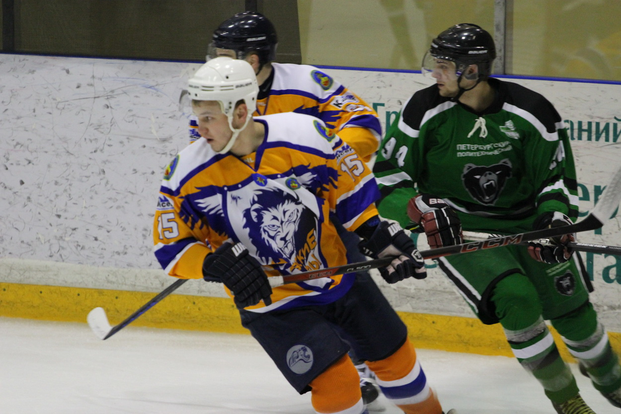 Hockey ugps